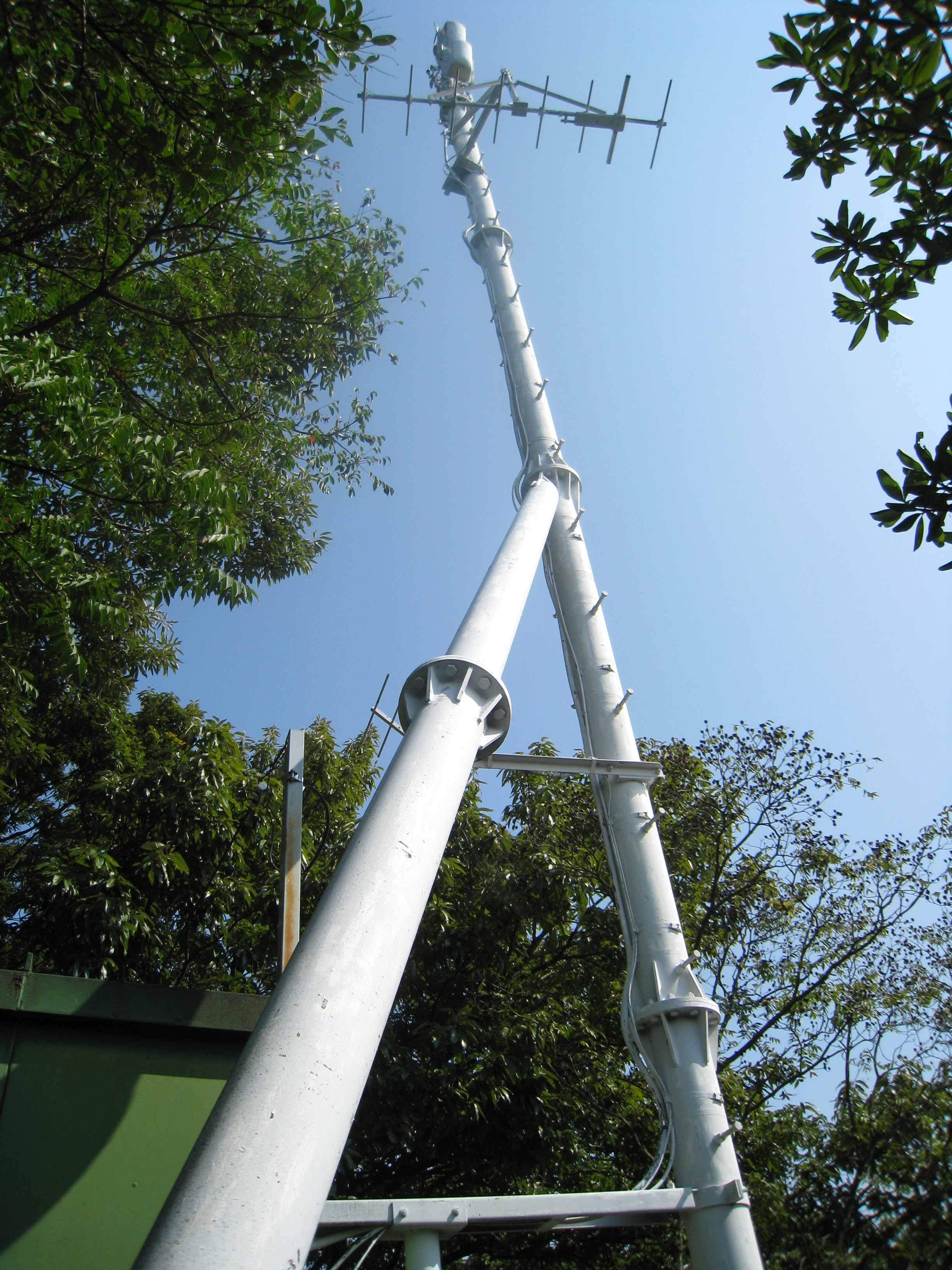 Ritsurin-minami relay station mast